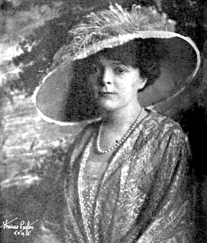 Felice Lyne, from a 1916 publication.